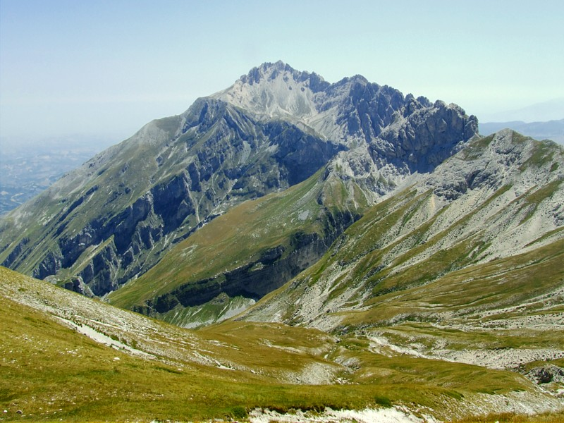 Monte Prena seen from Monte Brancastello